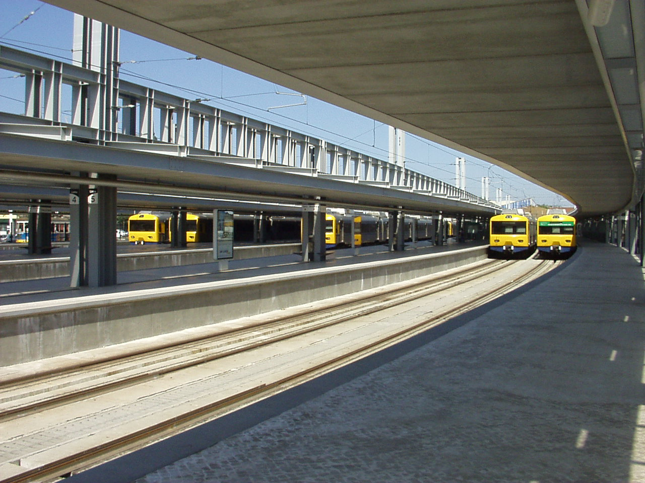 Cais do Sodré railway station in Lisbon